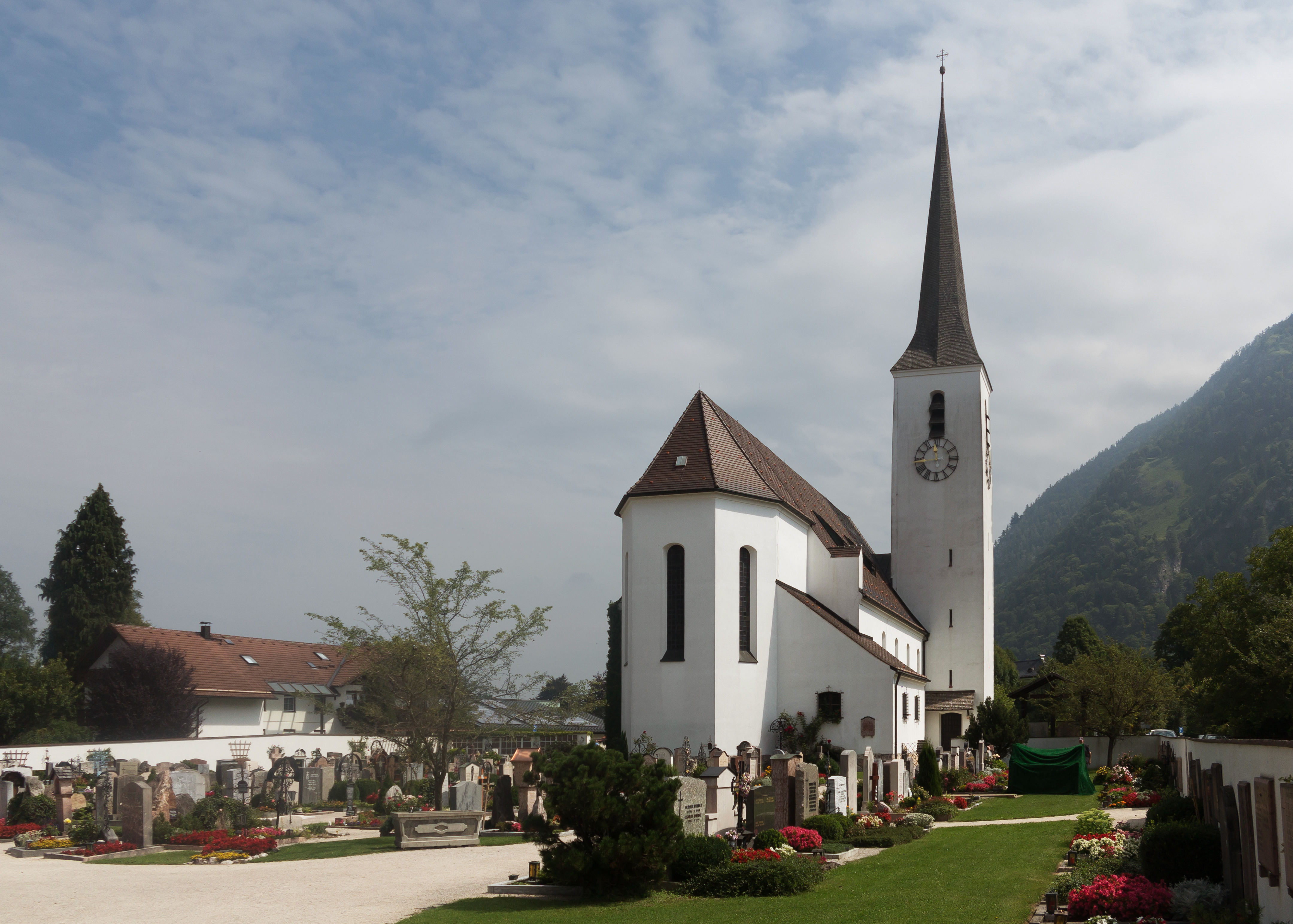 Marquartstein, church: die Pfarrkirche Heilig Blut